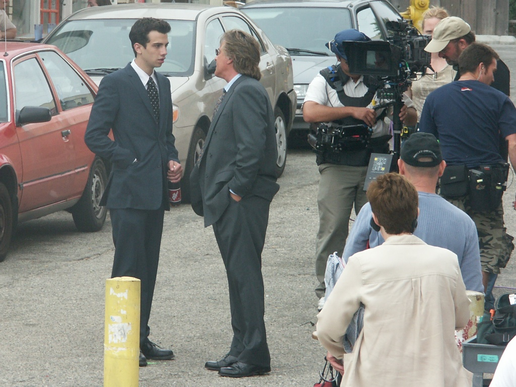 Jay Baruchel and Don Johnson on the set of the TV series "Just Legal" (Venice Beach, Ocean Front Walk)